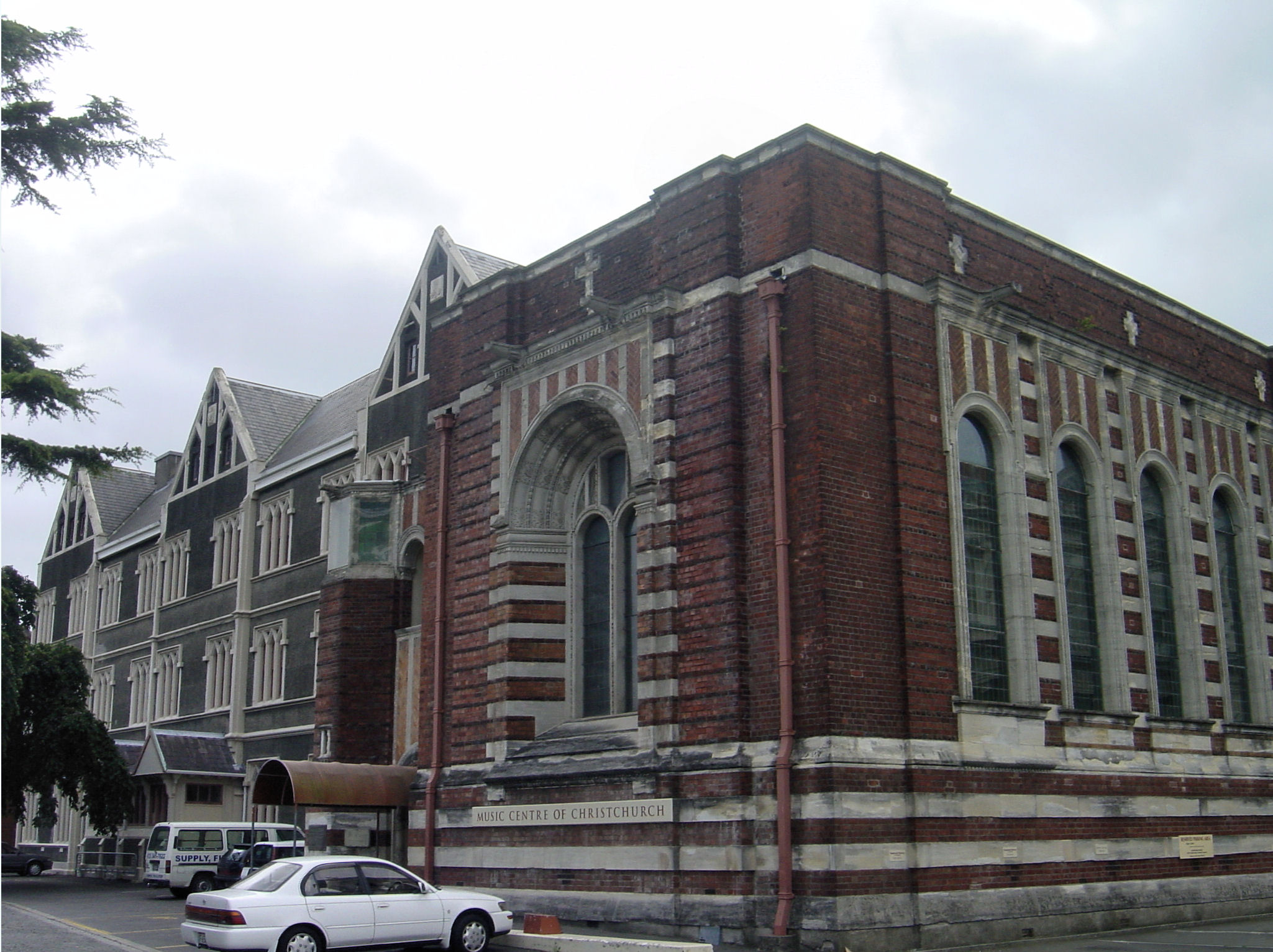 Photo from 2007.